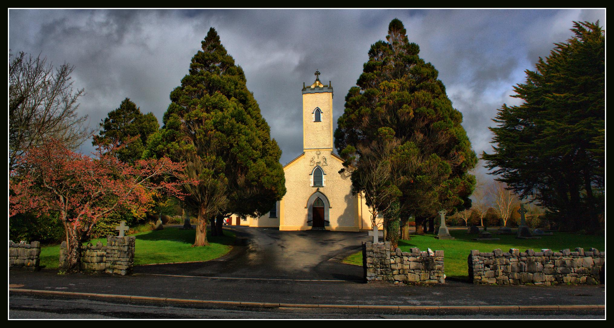 Craughwell, Co. Galway. I like the way this church is tucked in behind the trees.